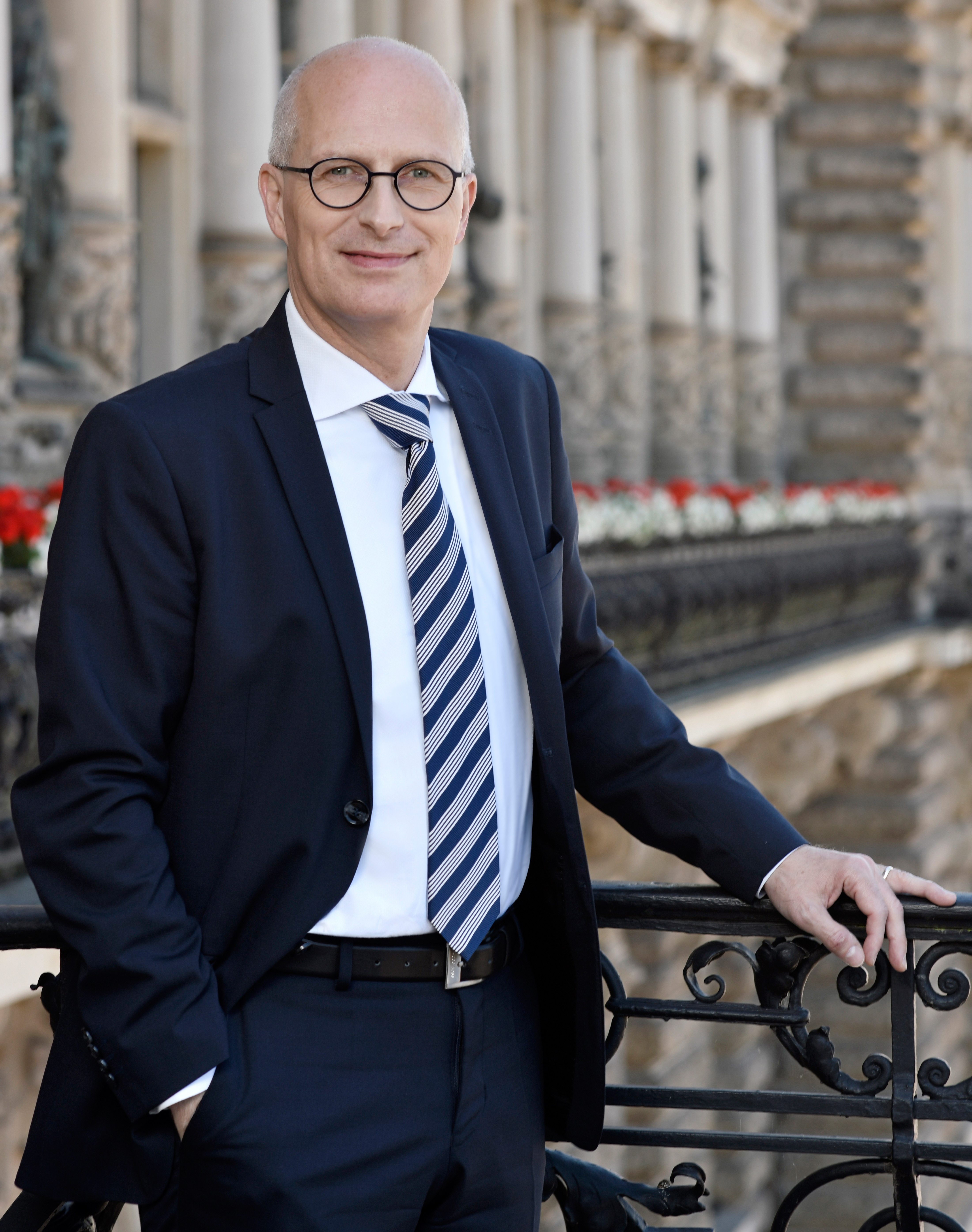 Portrait Dr. Peter Tschentscher